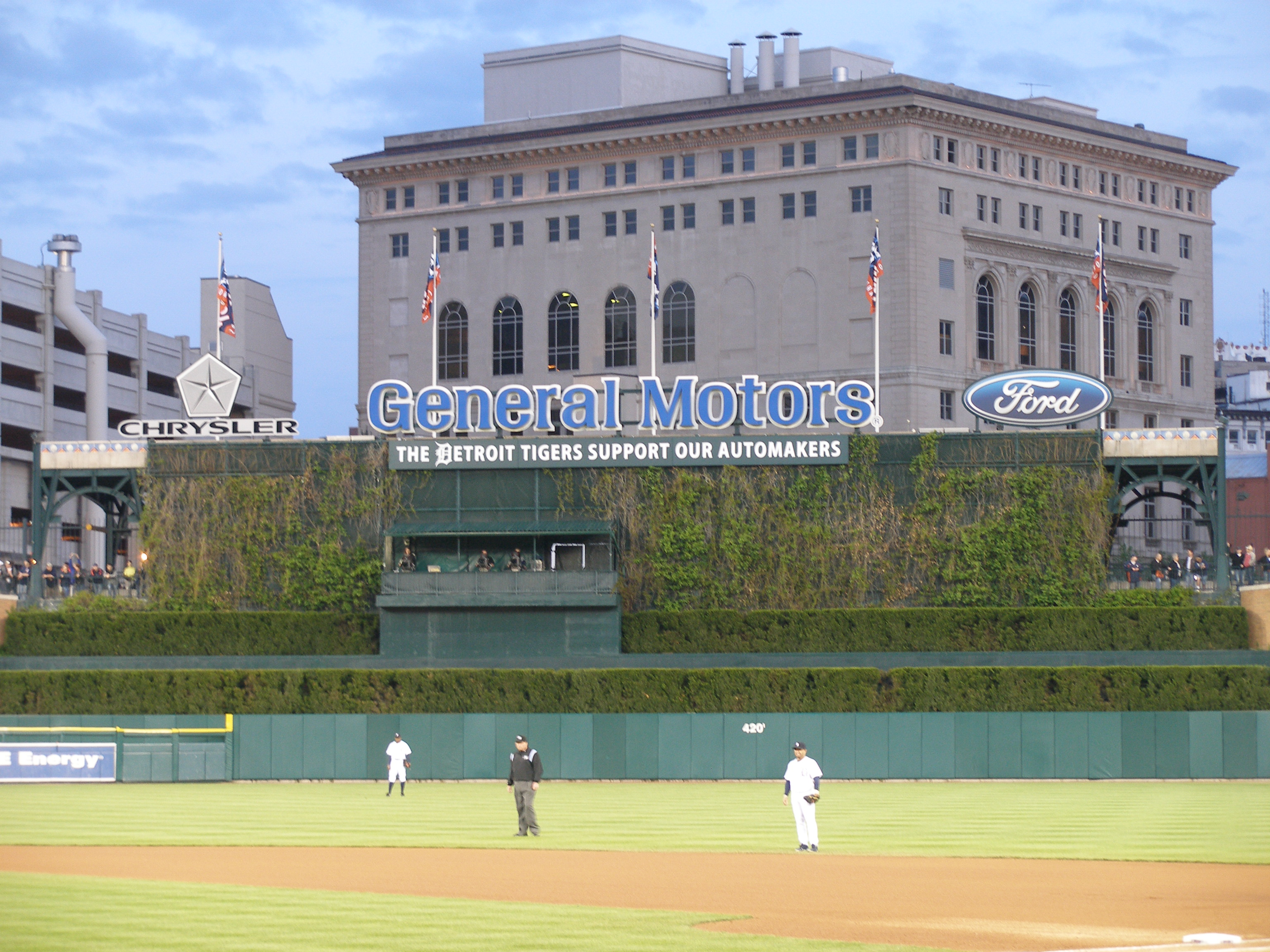 The homerun fountain in dead center field in Comerica Park in Detroit. The fountain was changed in 2009 from having just General Motors on the fountain to having Chrysler, General Motors, and Ford